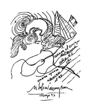 Dibujo automático premonitorio de Parravicini